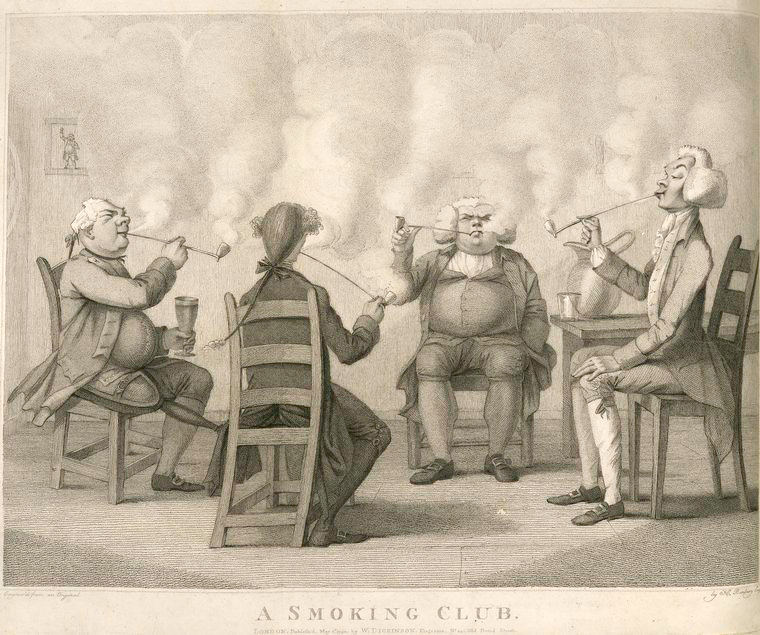 "A Smoking Club" - An illustration included in Frederick William Fairholt's Tobacco, its history and associations.